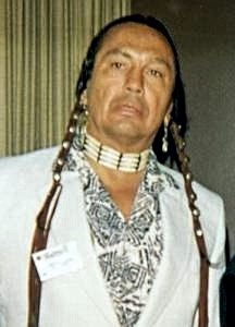 Russell Means at the Illinois Libertarian Party convention in Chicago, Illinois, at the time he was running for the Libertarian Party nomination for president, 1988.